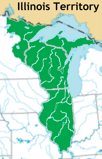 Map of Illinois Territory borders from 1809 to 1818; non-state territory went to Michigan Territory in 1818.